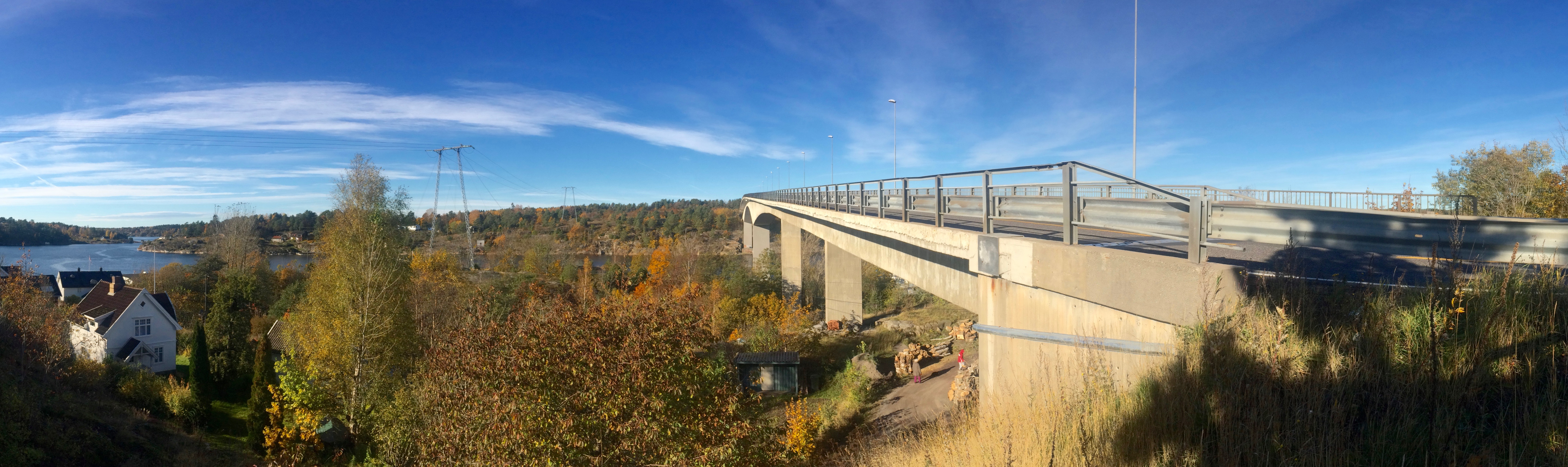 Vrengenbrua Tjøme Nøtterøy Vestfold Vrengen sørsida 2015-10-23 distorted panorama cropped